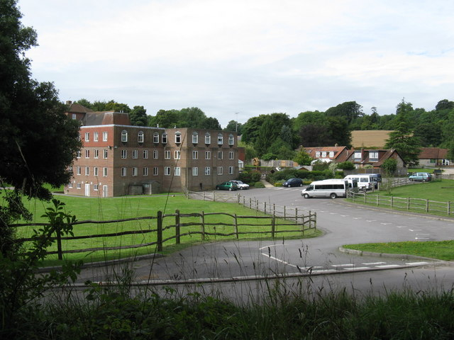 Windlesham House School The school is currently in its 75th year at this location